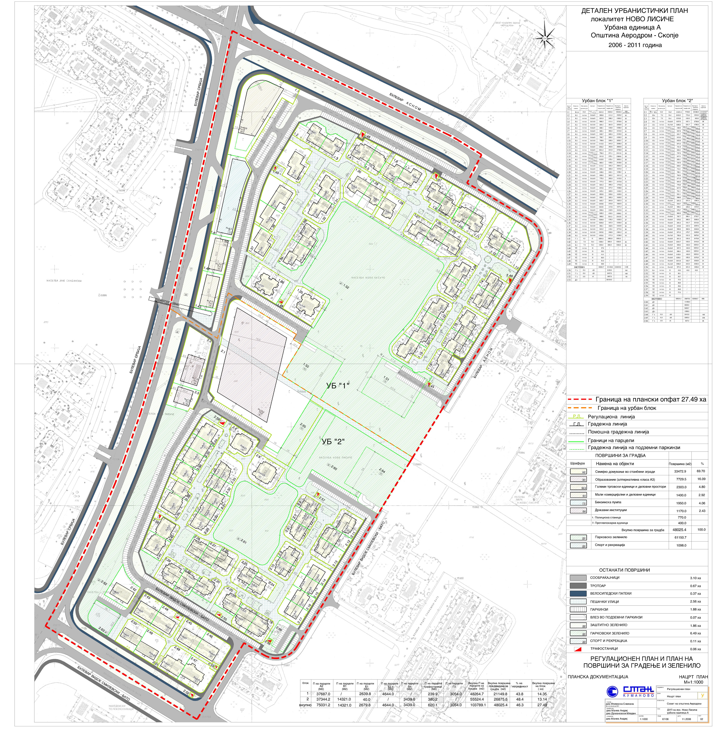 The graphical scheme of the Detailed urban plan for a settlement (urban area A) within the Aerodrom municipality of the city of Skopje, Republic of Macedonia. The graphical scheme contains different zones which are designated with different colors in the graph on the right side of the photo.